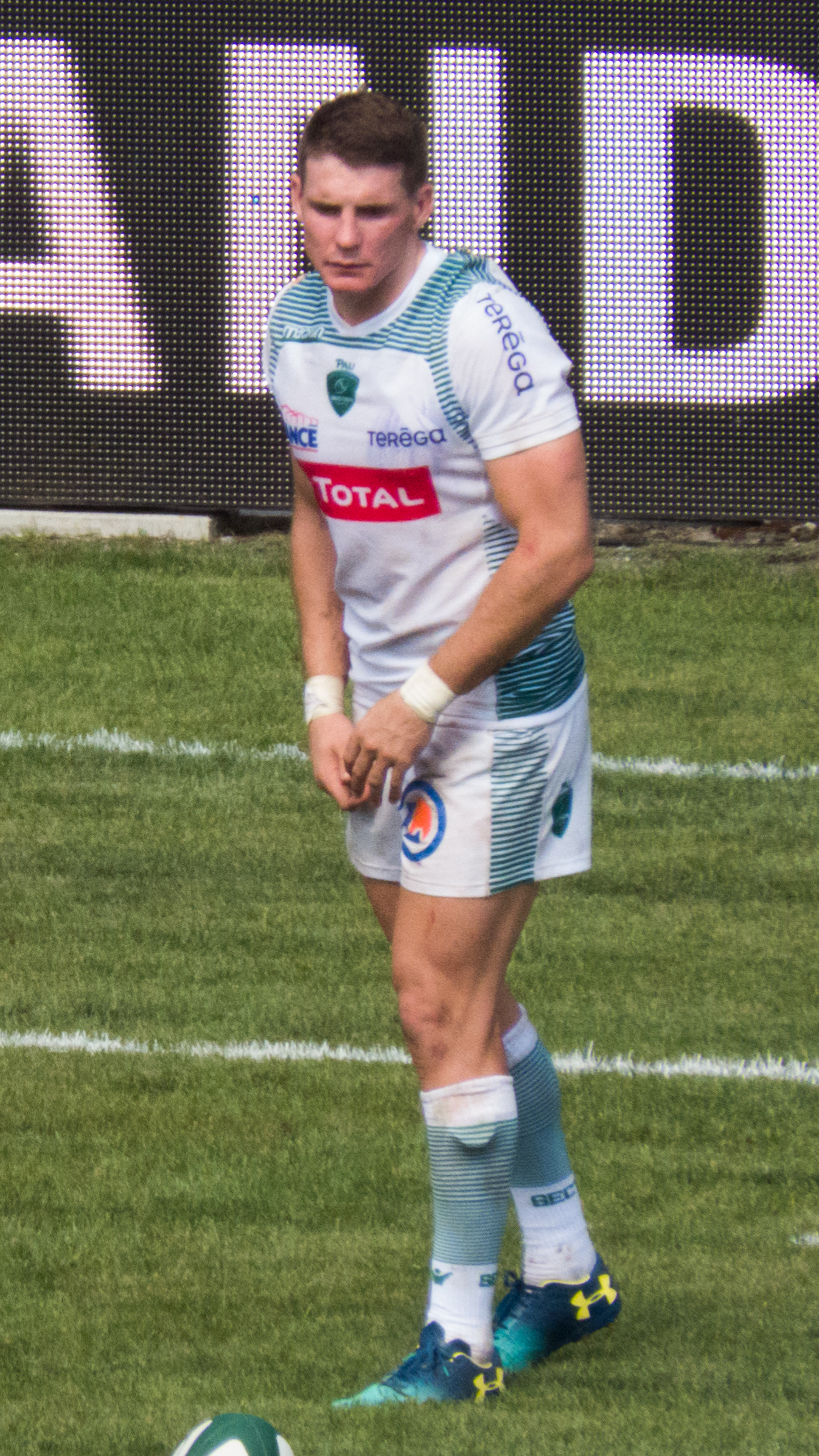 2018–19 Top 14 season — 1 September 2018, Stade du Hameau. Match between: Section Paloise — RC Toulonnais